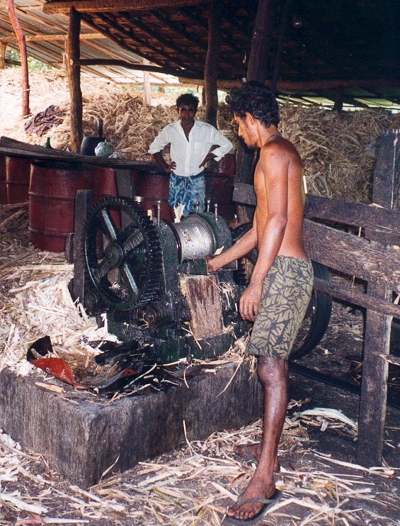 A picture I took of how fibre is produced from coconuts in Sri Lanka sometime in the late 1990s.